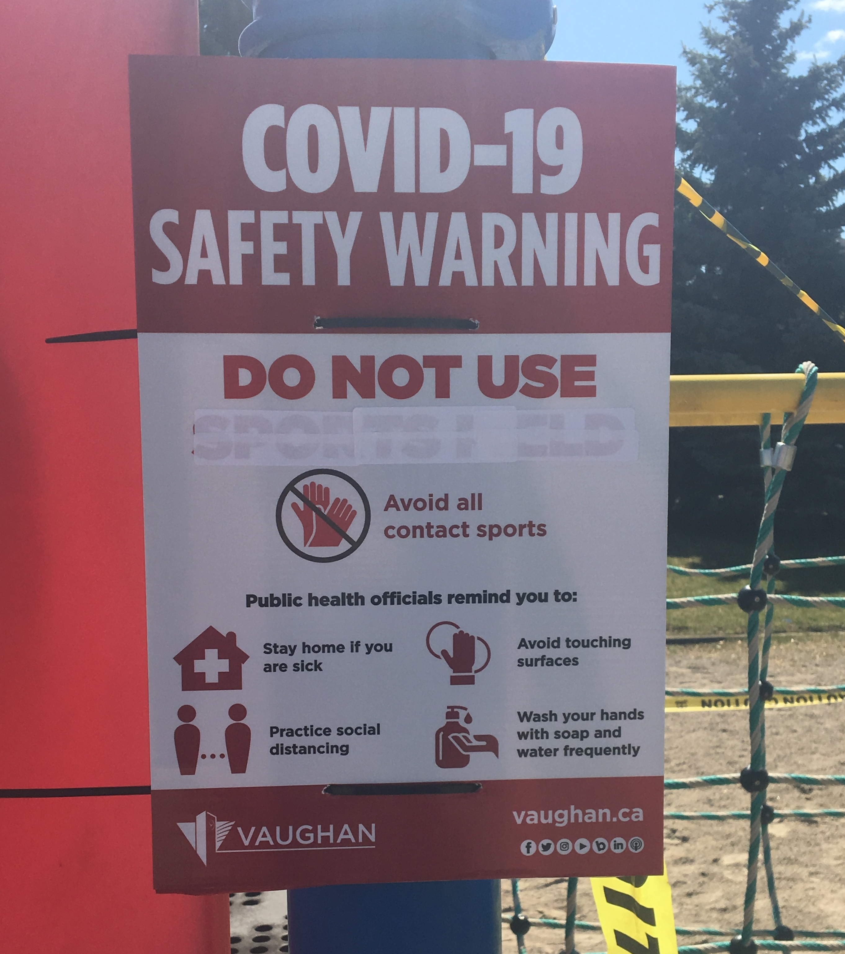 A closure notice at a Vaughan park over COVID-19